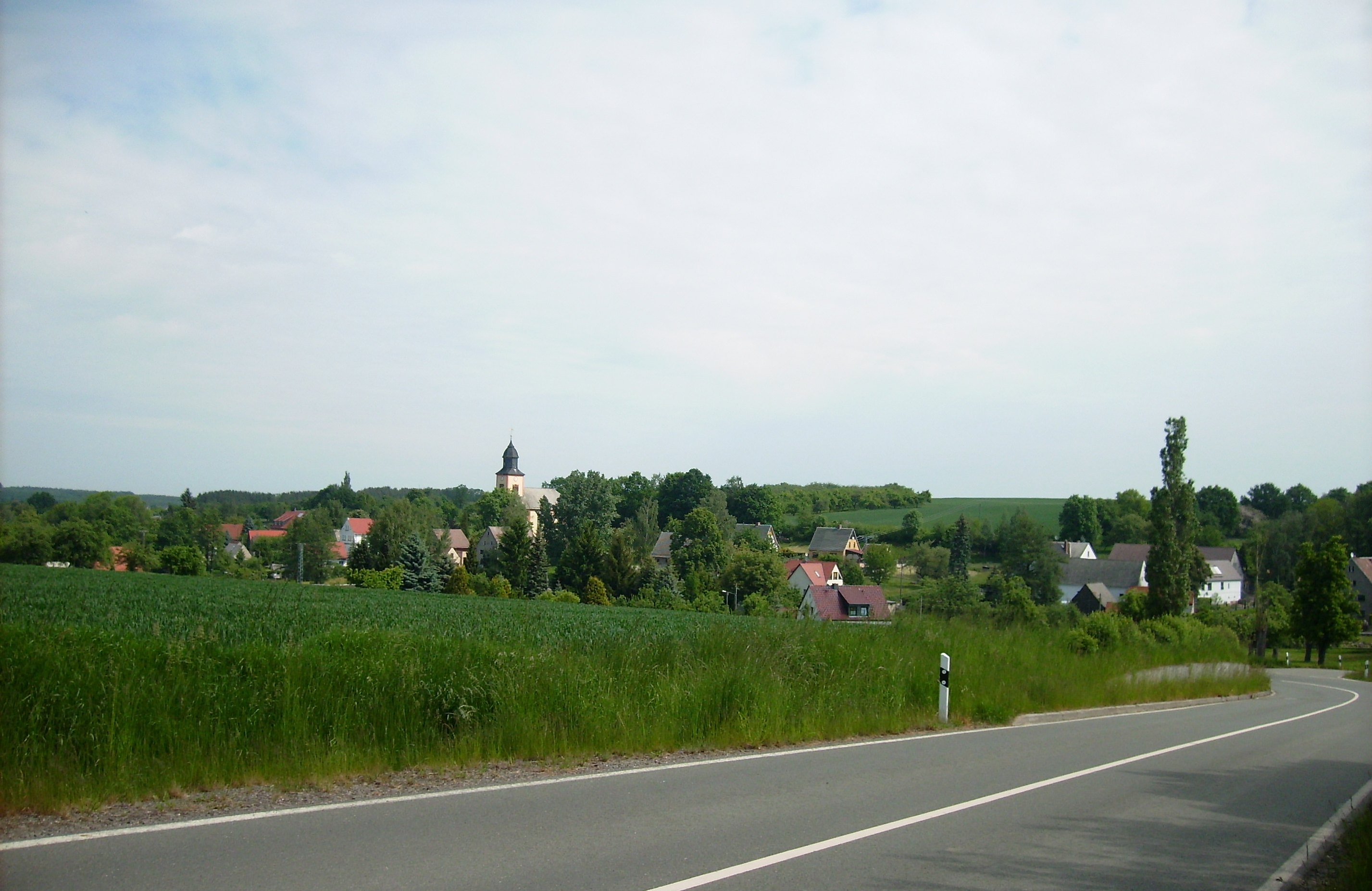 View of the village of Frohnsdorf (district of Altenburger Land, Thuringia)